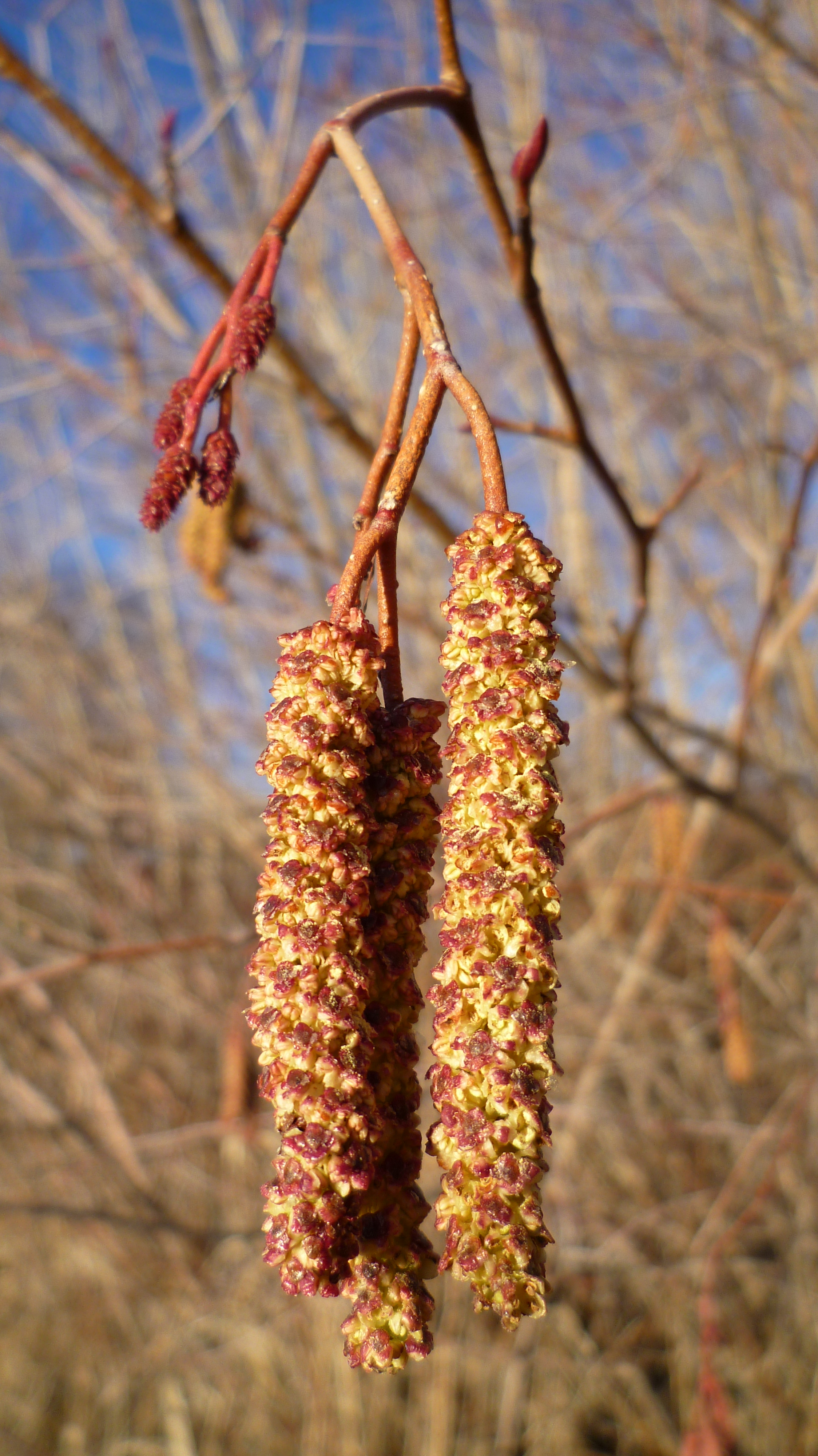 Alnus incana var. tenuifolia male catkins next to the Columbia River in East Wenatchee, Douglas County Washington